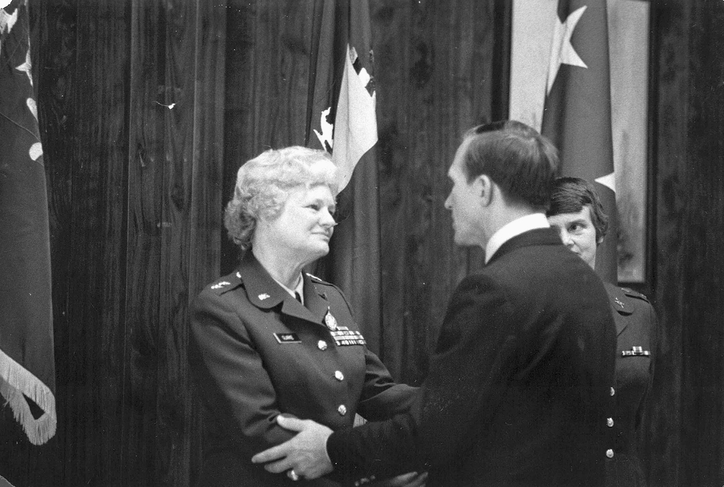 From the back of the photo: PROJECT: RECEPTION Fort McClellan, AL Reception for MG Mary E. Clark. PHOTOGRAPH BY: SP5 Abel M. Vicente, Photographic Facility, Fort McClellan, AL Handwritten: Secretary Walters ASA/M&RA coming through receiving line at NCO Club after Review